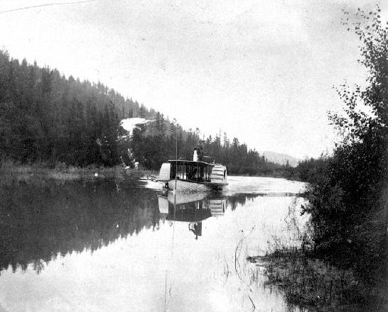 Pert small sidewheel steamer at Canal Flats, British Columbia 1894